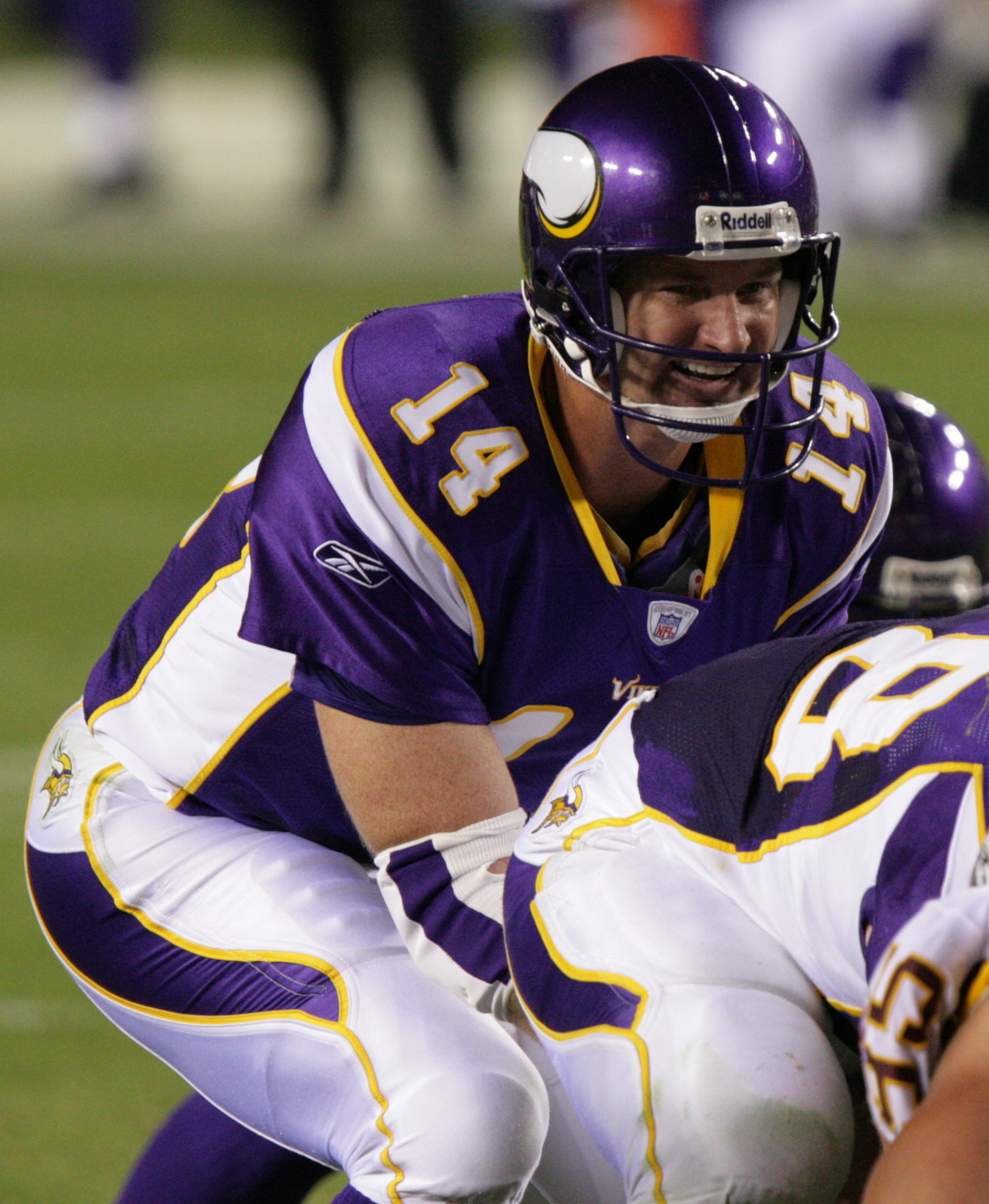 Minnesota Vikings quarterback Brad Johnson playing against the Washington Redskins on Sept. 11, 2006 at FedEx Field.